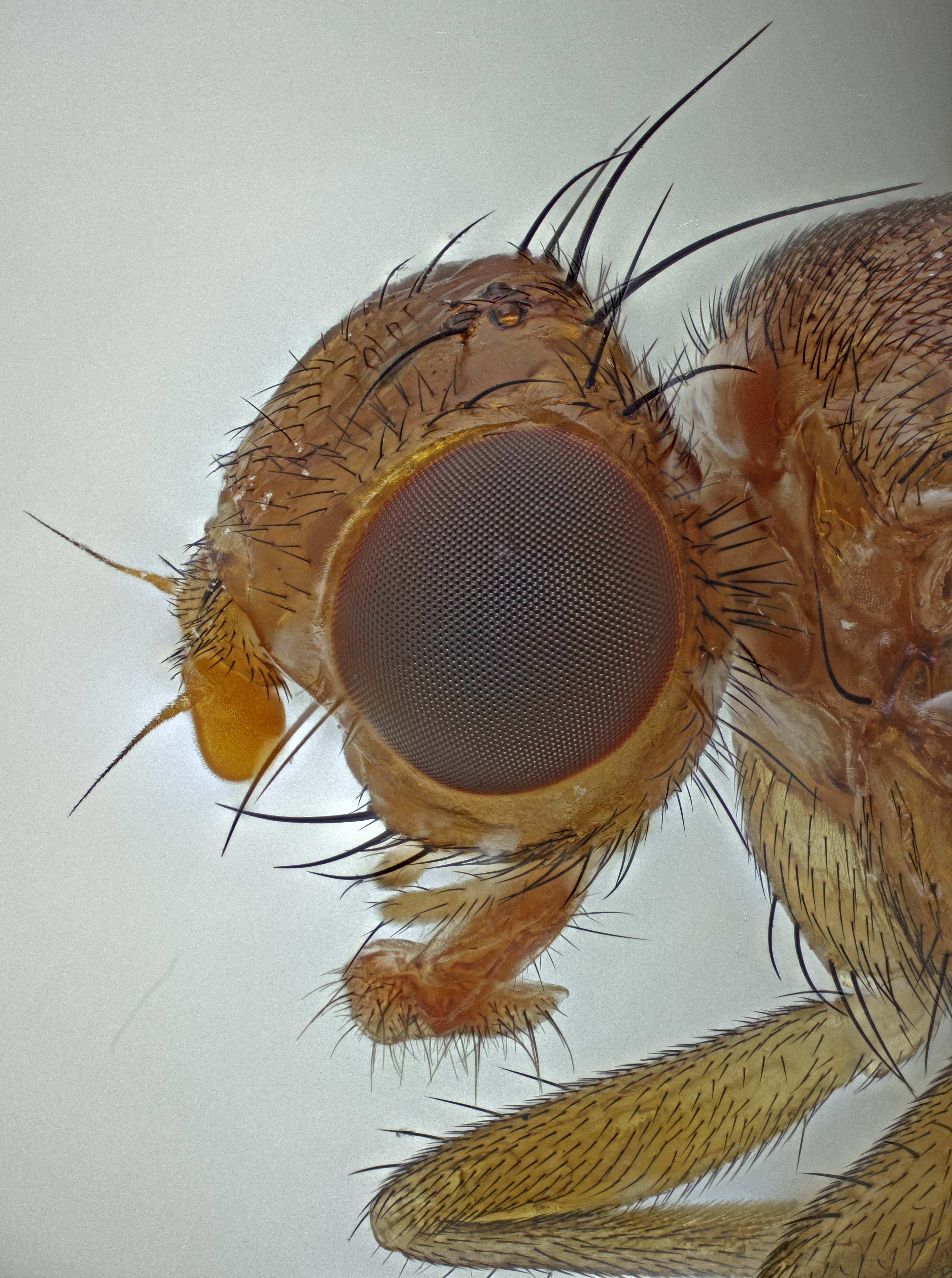 This distinctive fly is sometimes called the Nest Skipper Fly. The larvae are parasites of birds, sucking the blood of nestlings. It has been found in nests of various birds, e.g. Greenfinches, Chaffinches, Linnets, Thrushes and Blackbirds. The name Skipper refers to the ability of the maggots to jump or skip several cm by bending then suddenly straightening. I found this specimen in my conservatory. ID confirmed by Tony Irwin, There are currently no records for this species on the NBN Gateway for East Suffolk and only one in the whole of the county. The details of this record are: Neottiophilum praeustum (female) Ipswich, East Suffolk TM16644502 29-Apr-2014 indoors Found by Martin Cooper Determined by Tony Irwin